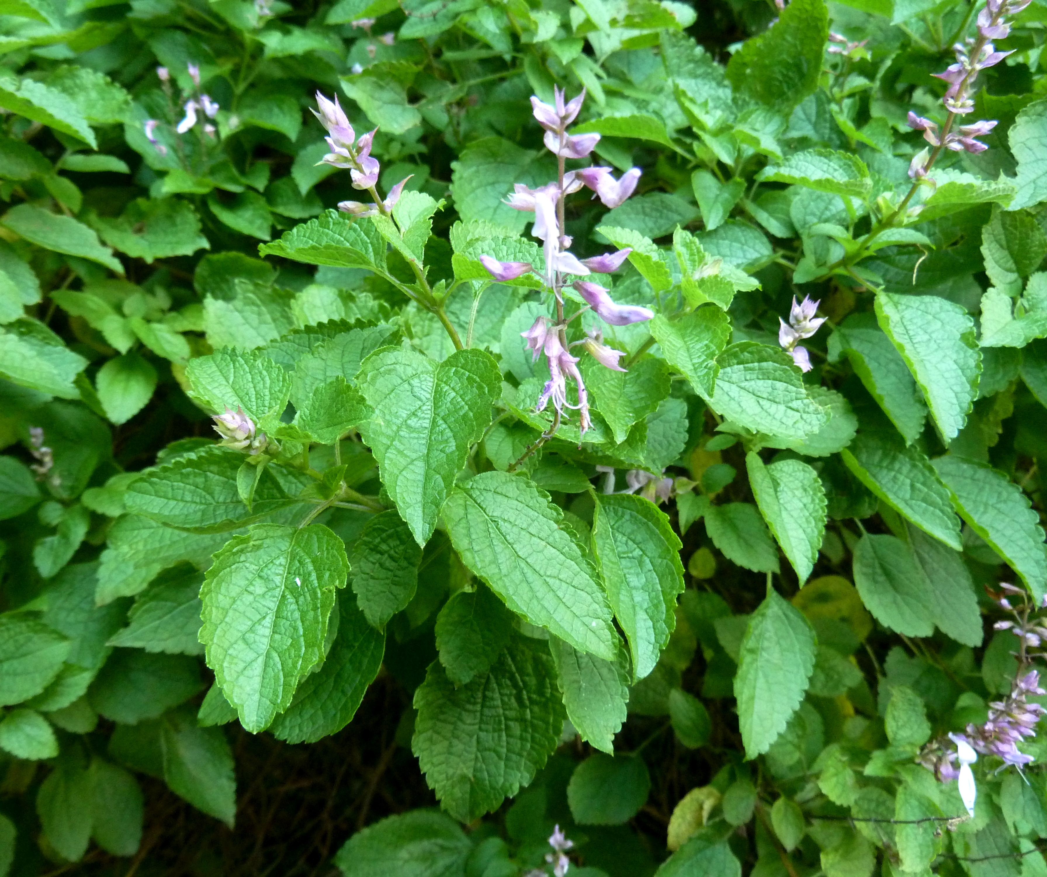 Flowers of Ocimum labiatum in the Manie van der Schijff Botanical Garden at the University of Pretoria